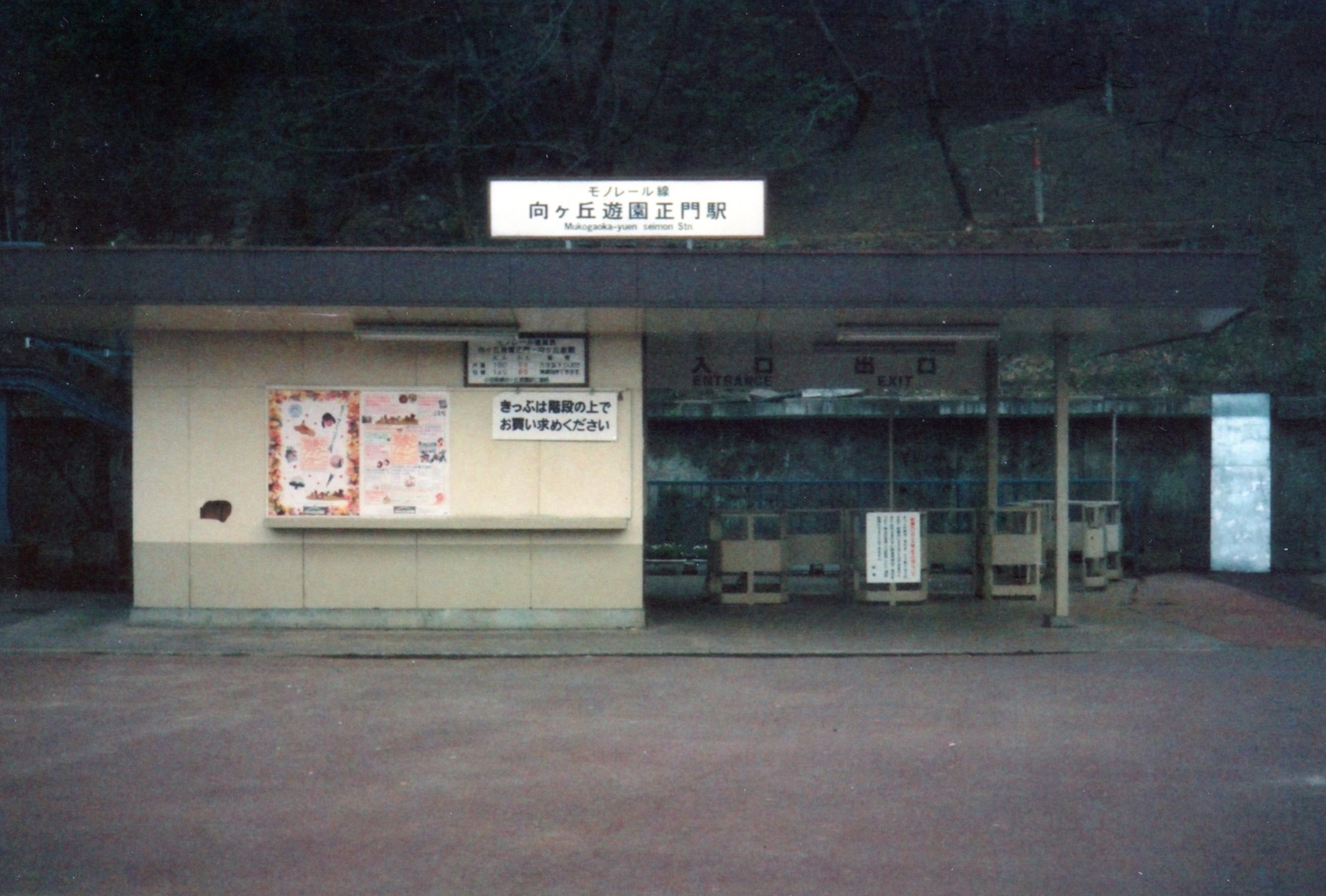 Odakyu Electric Railway, Mukogaoka-Yuen Seimon Station